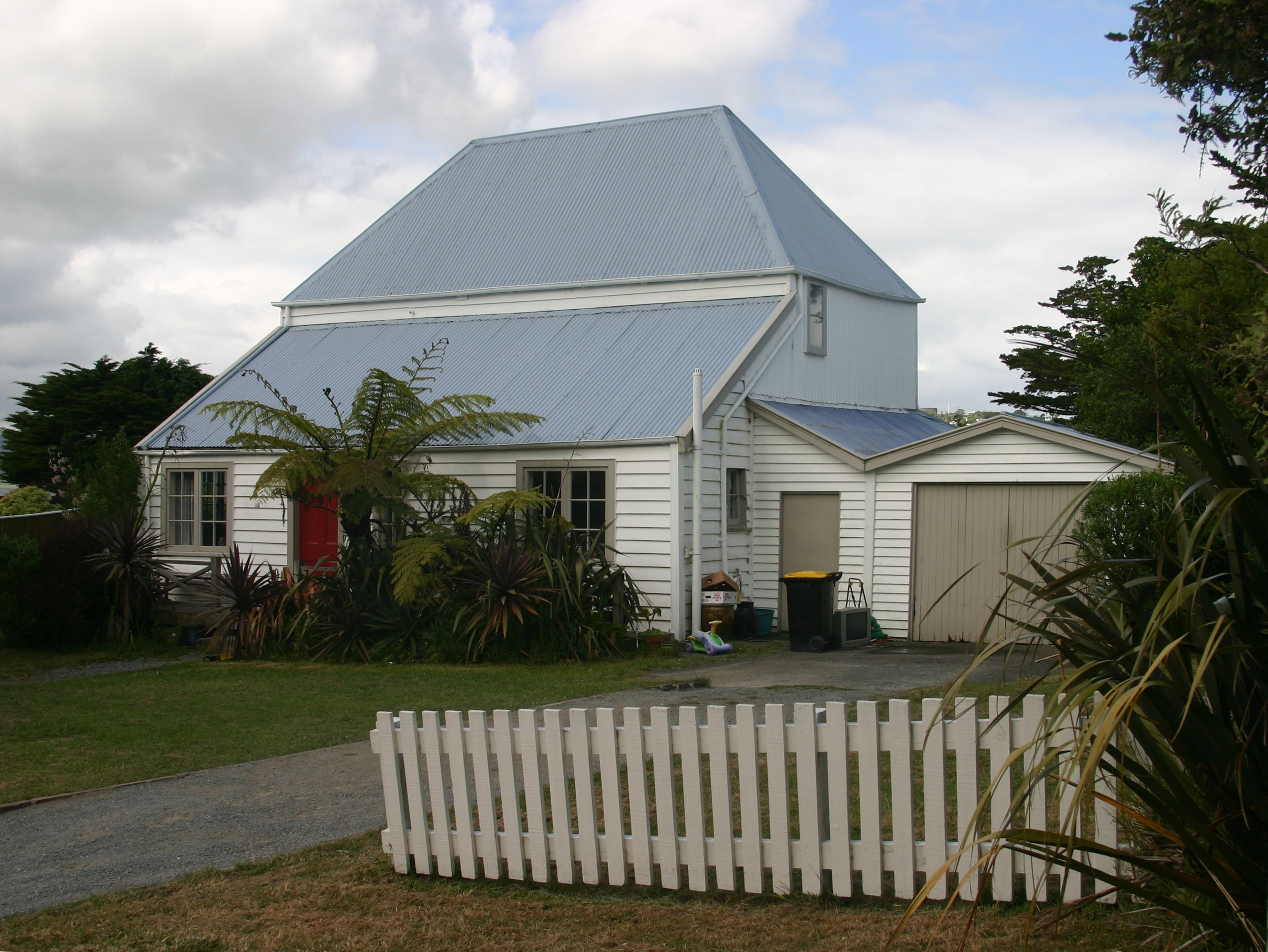 Daisy hill farmhouse. Johnsonville, Wellington, New Zealand.